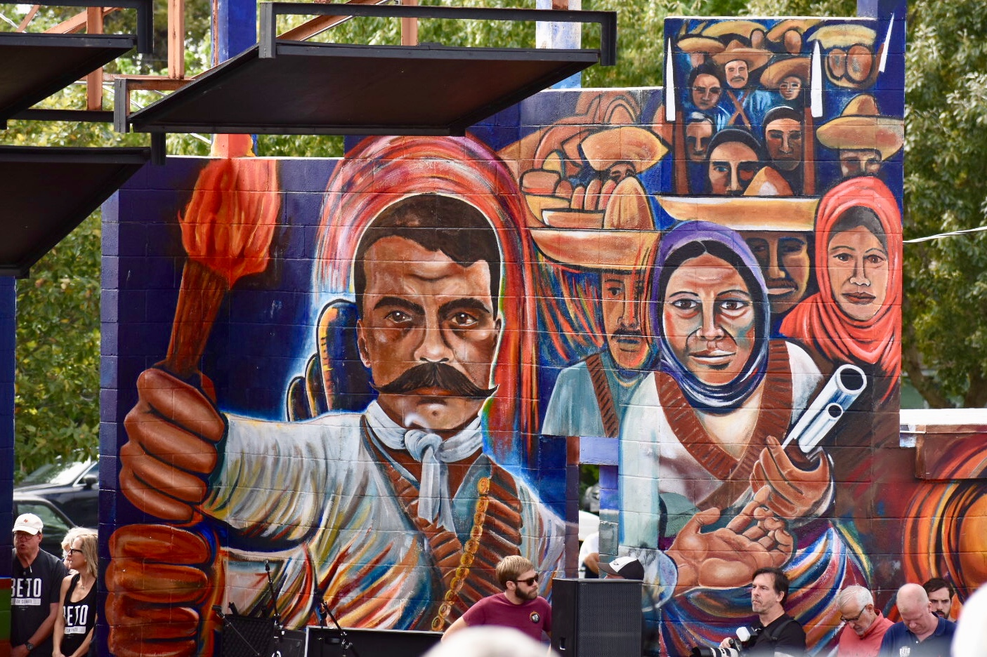 Beto Rally at the Pan American Neighborhood Park, Austin, TX